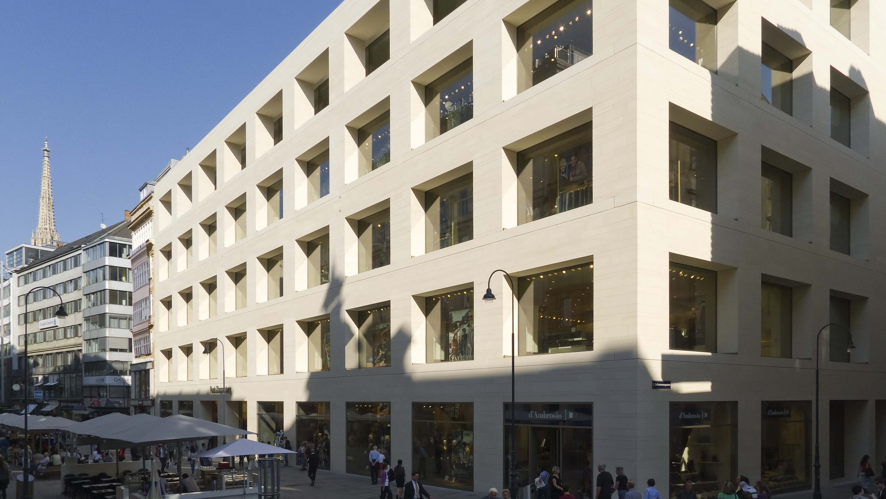 Building Kärntner Straße 29-33 ("Weltstadthaus"), Vienna